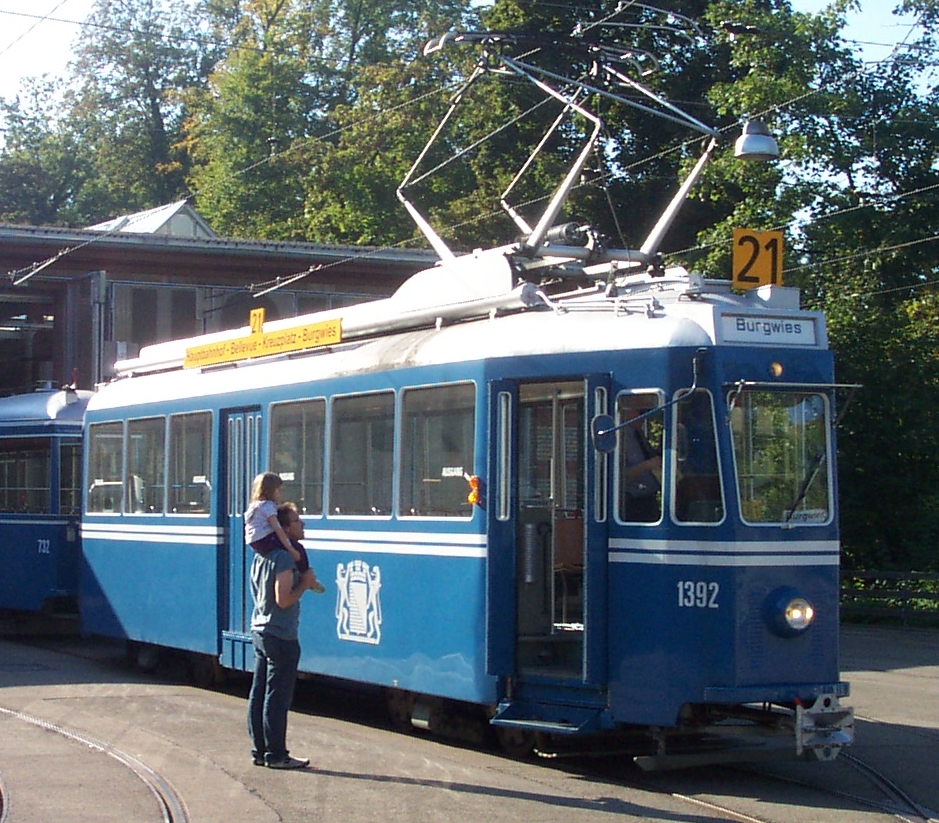 Swiss Standard motor tram 1392 backing into the Burgweis tram depot after having operated on museum tram route 21. For more information, please see Wikipedia article Zurich Tram Museum